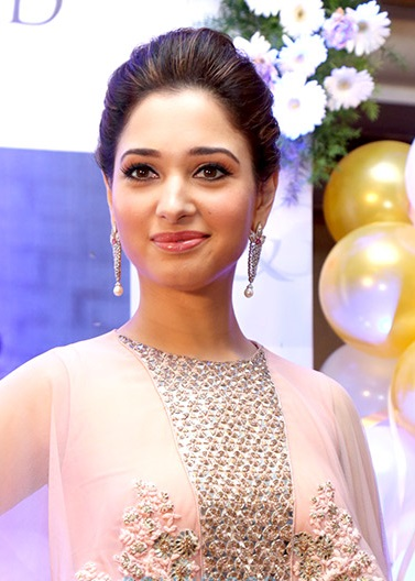 Tamannaah Bhatia at the launch of her own jewellery brand 'Witengold' in Hyderabad.